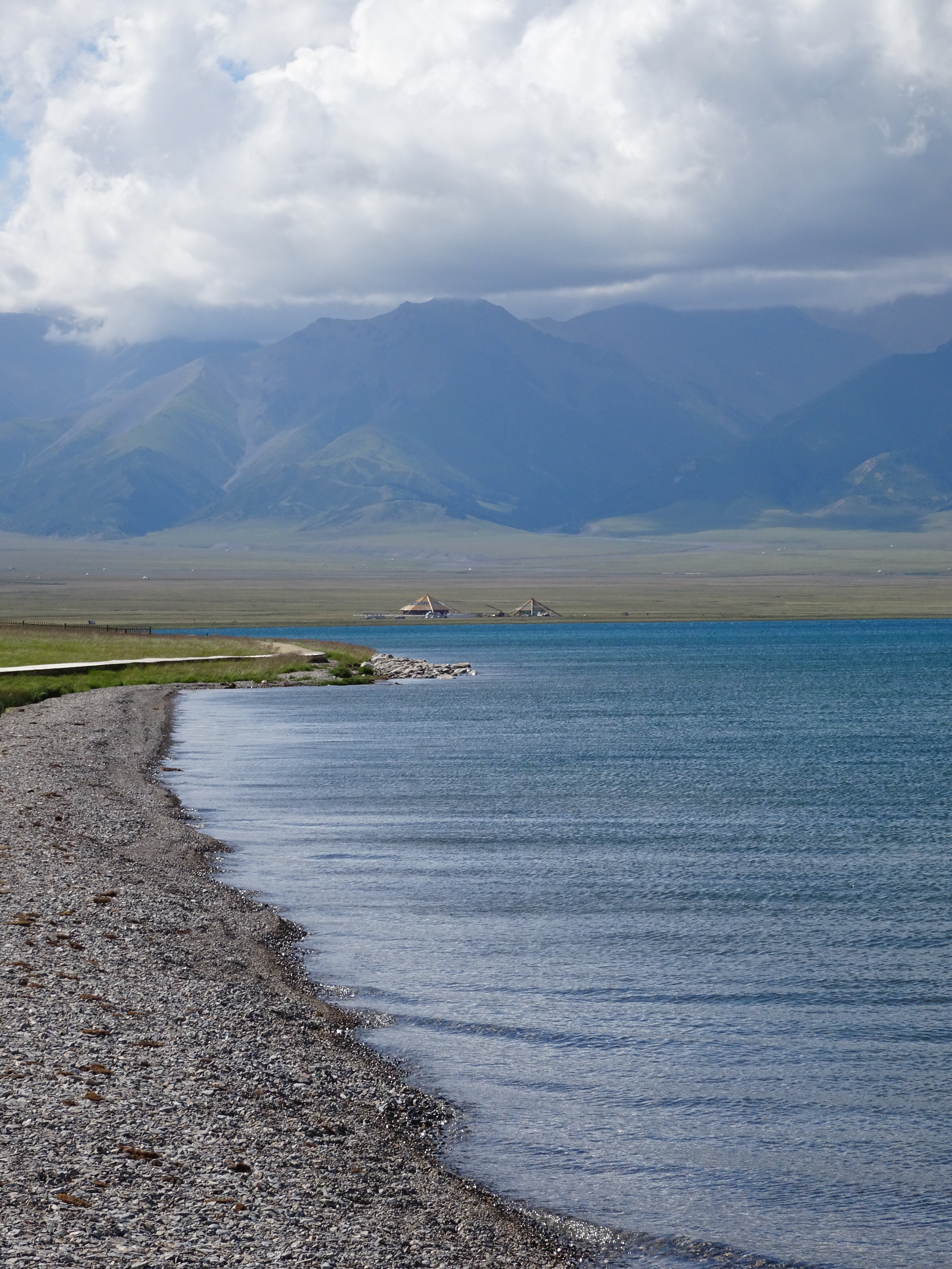 Scenery in Lake Sayram Scenic Spot, Xinjiang, China.